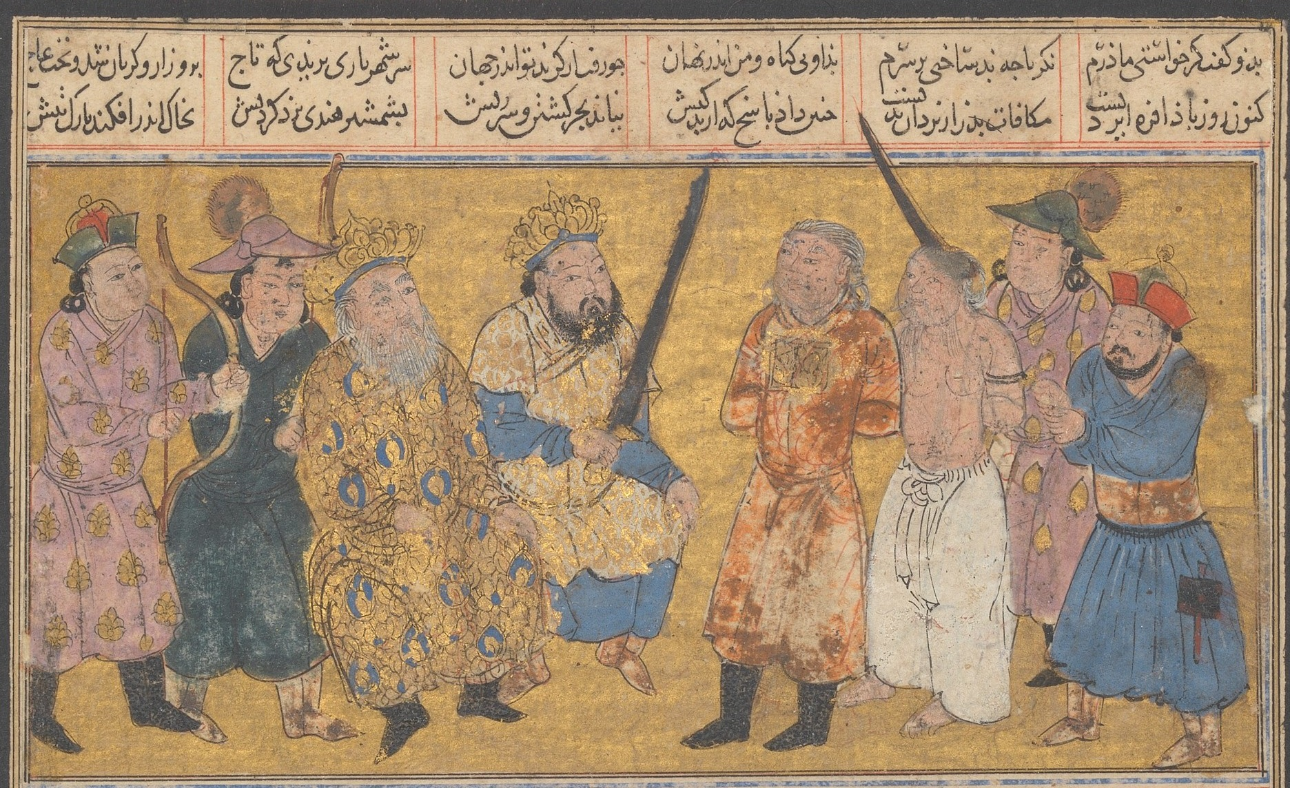 Caicosroes é entronizado rei por seu avô Caicaus com espadas